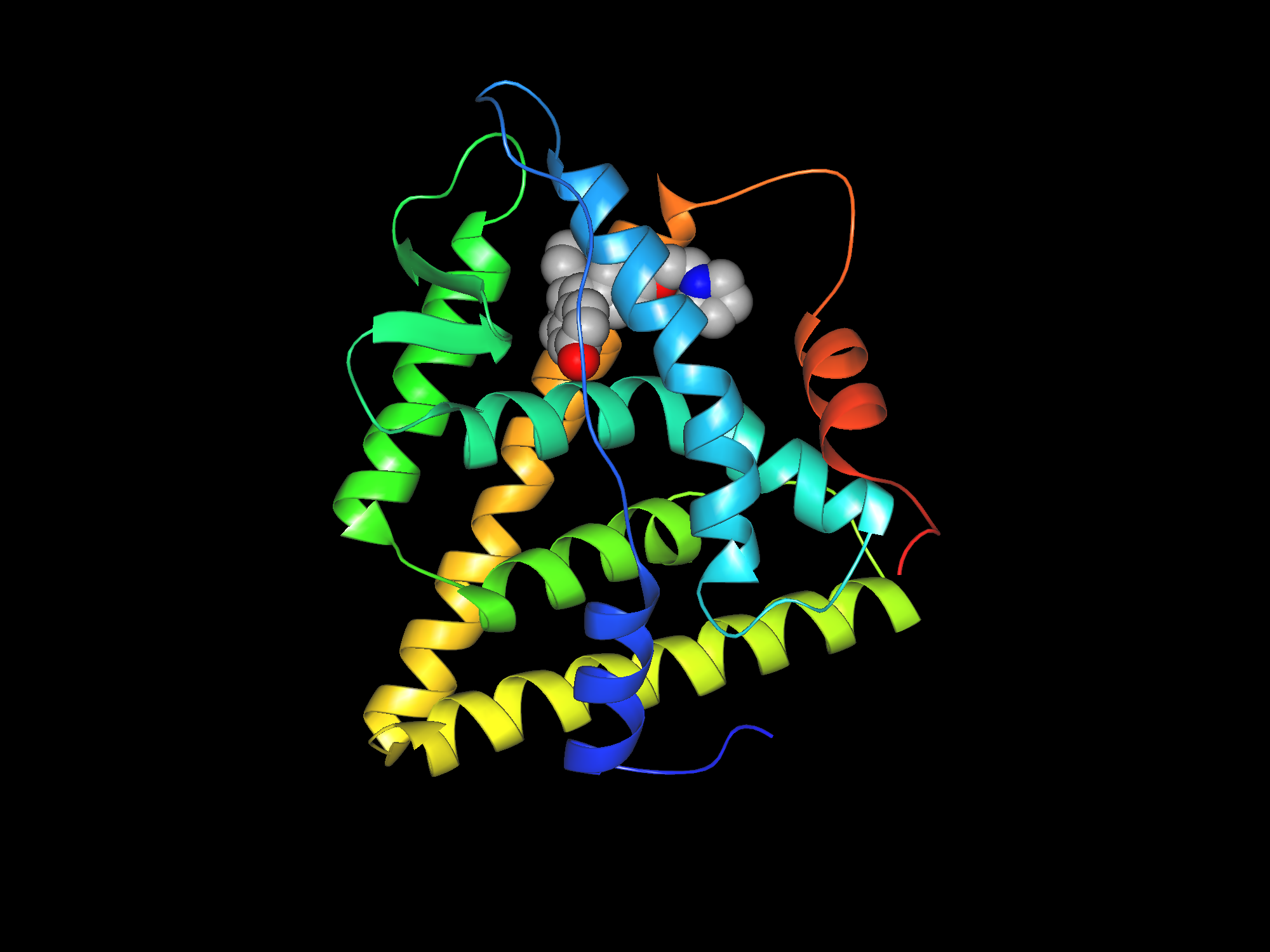 A crystal structure of the ERalpha ligand-binding domain complexed with lasofoxifene